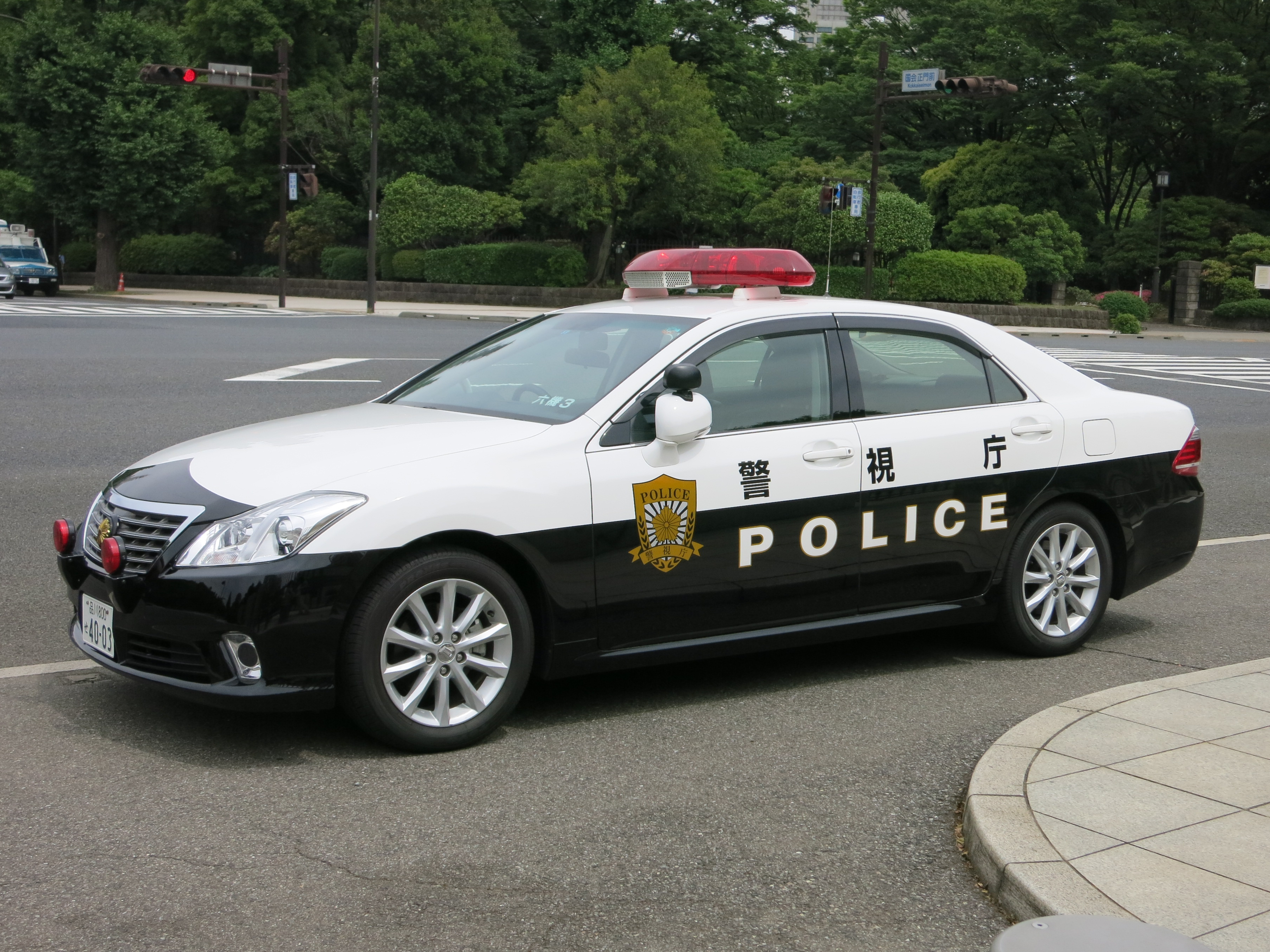 A Japanese police car. The top half is white, and the lower half is black.